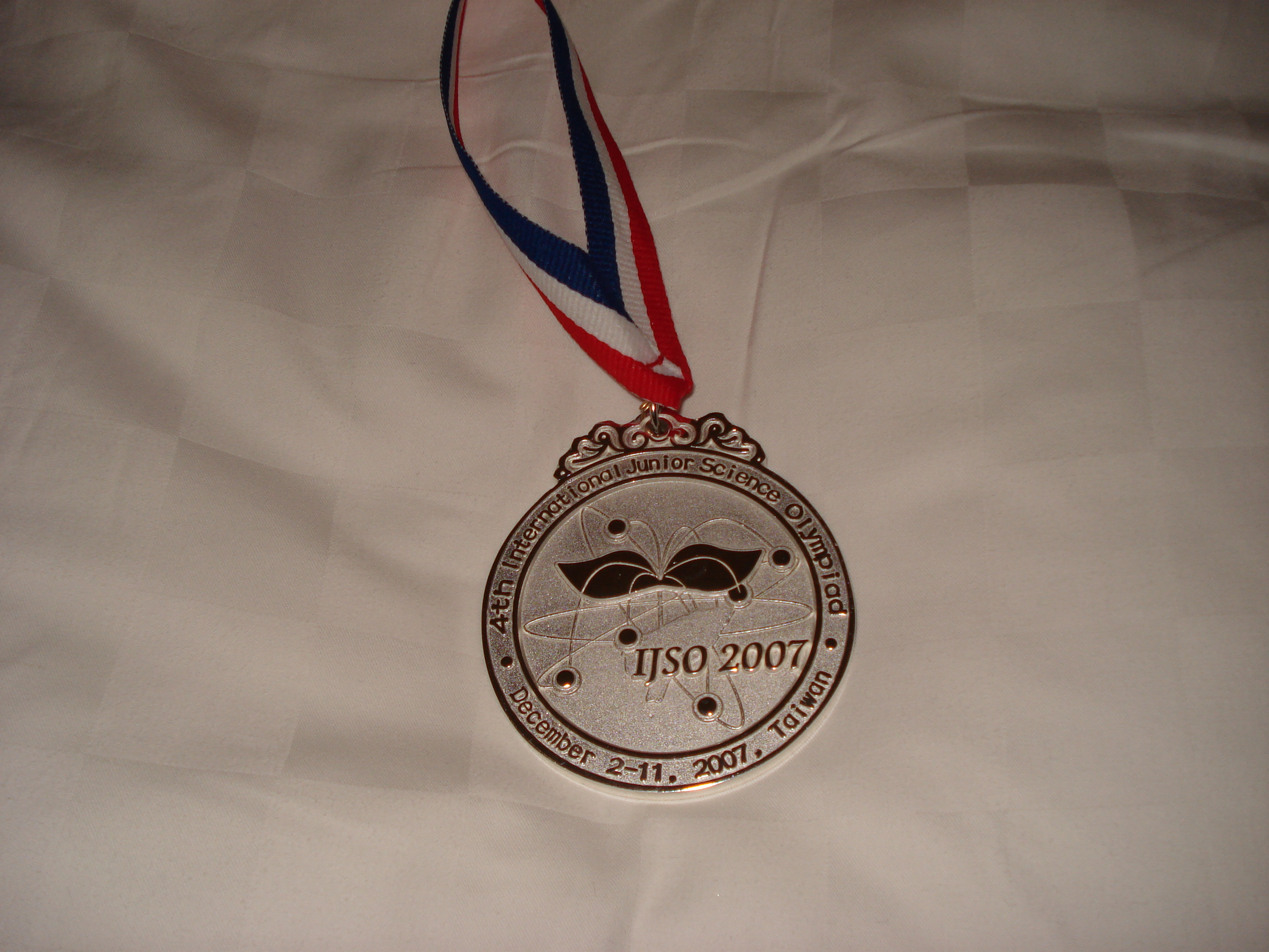 Silver Medal from the 4th IJSO